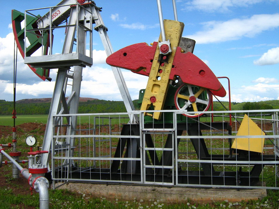 Нефтяная скважина в Татарстане,с приводом штанг от станка качалки